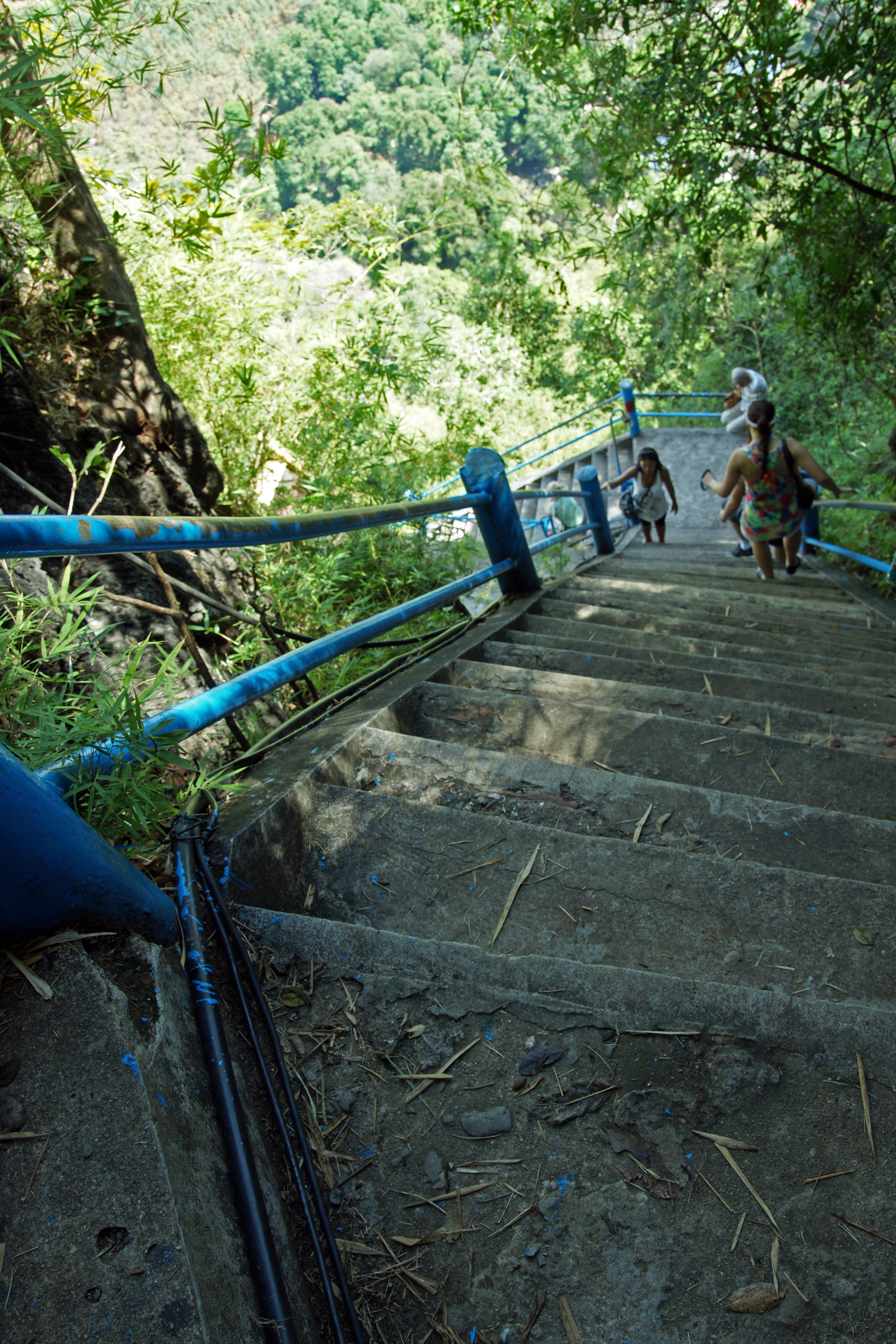 Stairs in Tiger Cave Temple (Wat Tham Sua) in Krabi town, Krabi, Thailand.